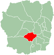 Location map of Faratsiho region in Antananarivo province.